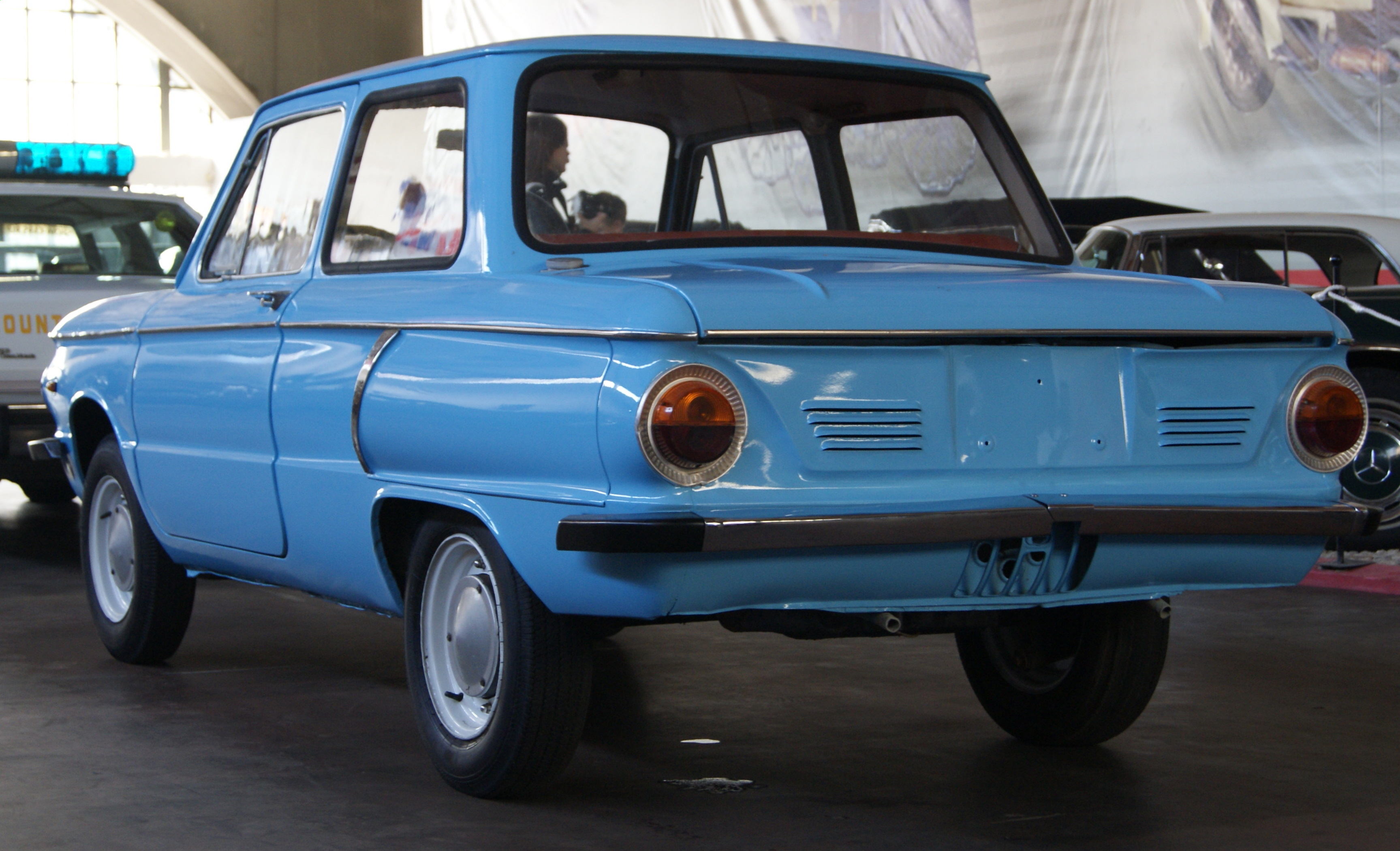 ZAZ-966 rear view.